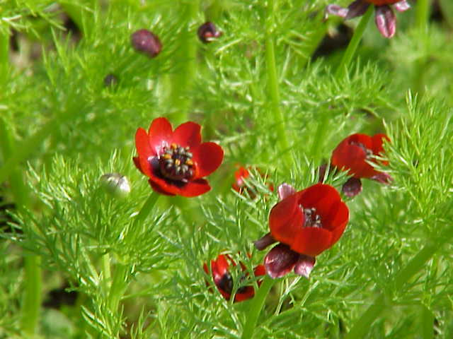 Species: Adonis annua subsp. annua Family: Ranunculaceae Image No. 2